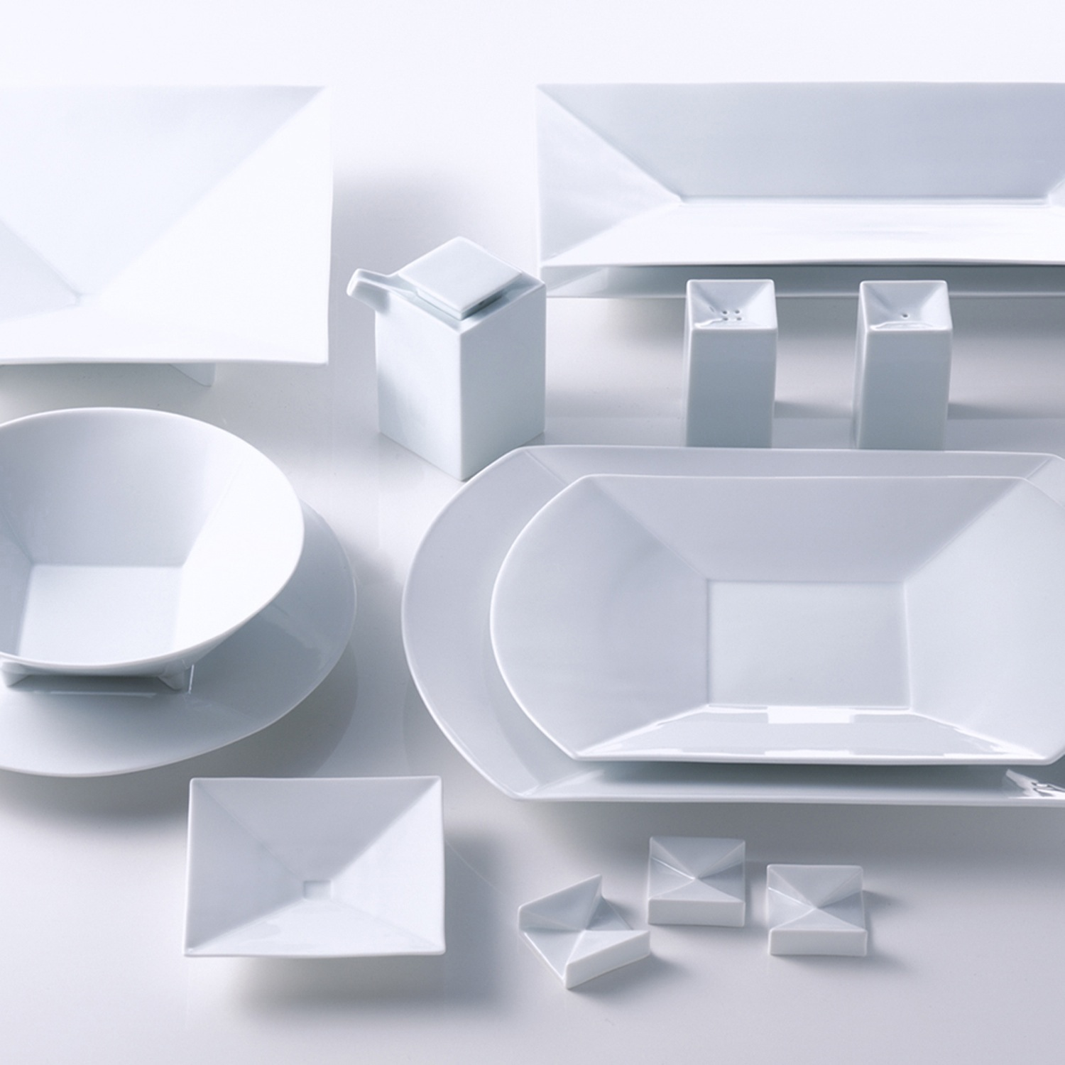 Works of KAWAKAMI Motomi 014-2005